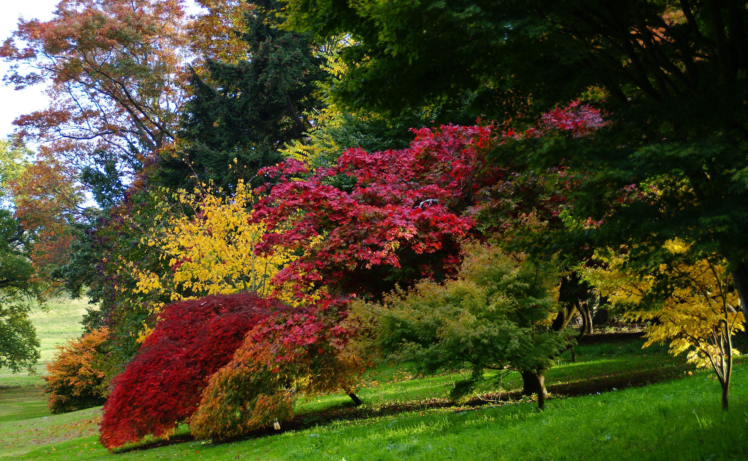 Autumn colours in Dartington Hall gardens, Devon, UK in late light.